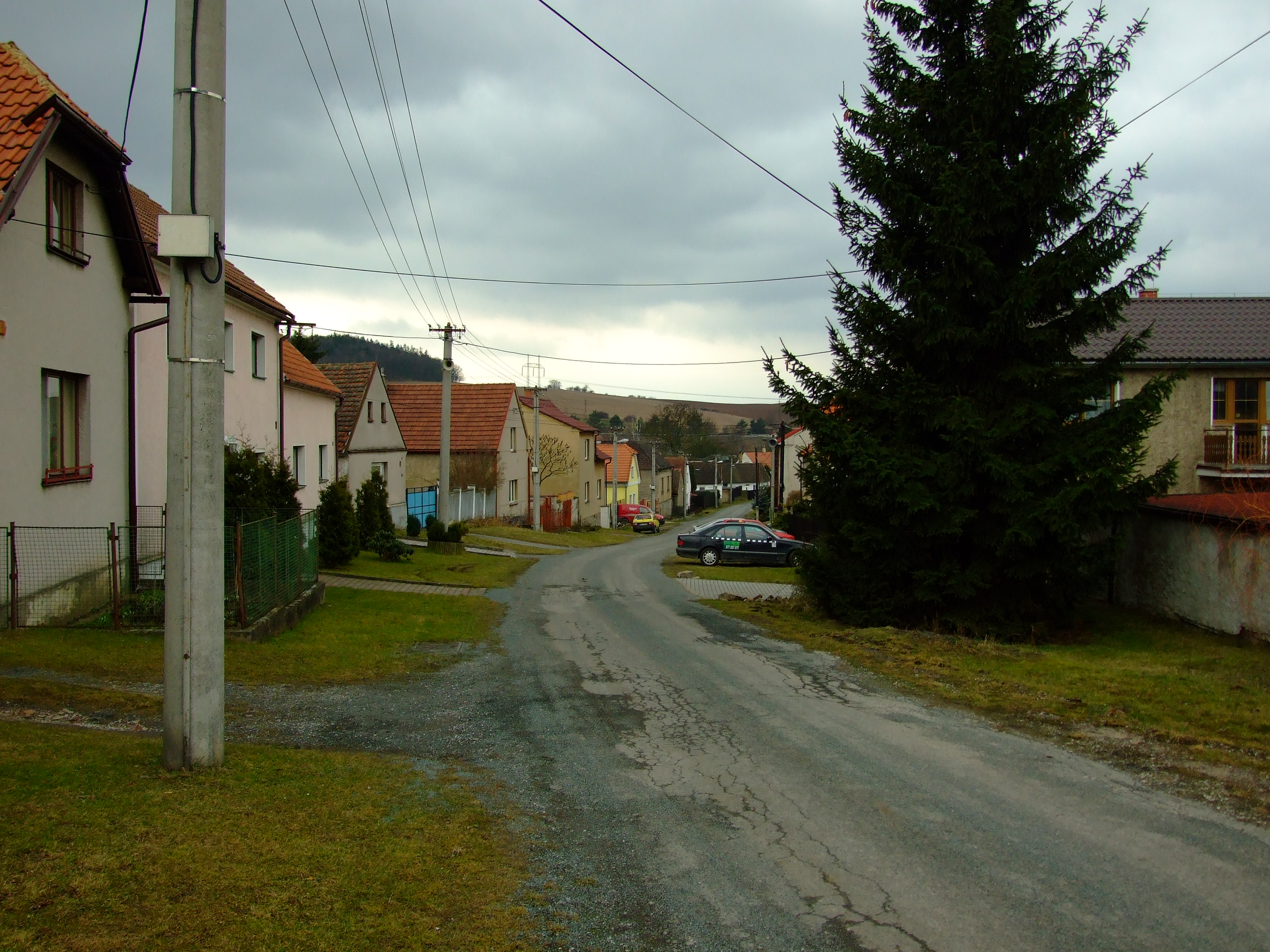 Town Chyňava (its part is this village - Libečov) and surrounding nature in Central Bohemian region, CZhelp